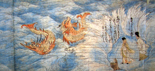 Gengyo 2 : Gengyo looking for the King of the Sea.